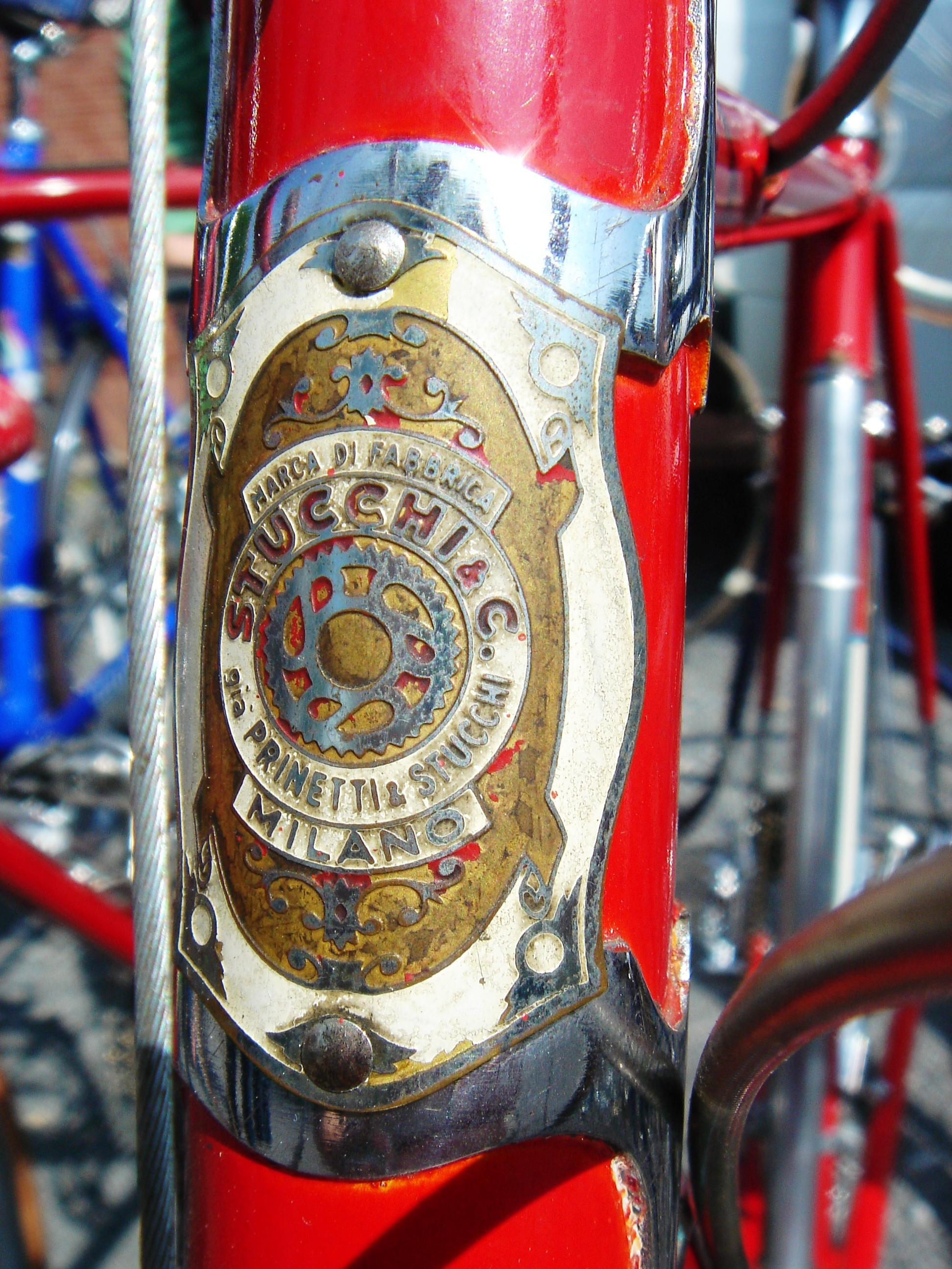 Stucchi Head badge